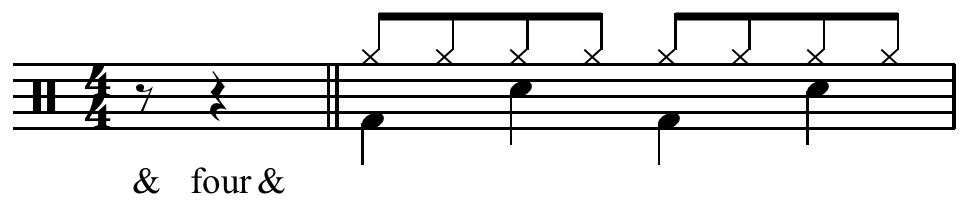 2nd shortest count off, "& four &" (high tom-tom rather than voice). Followed by one measure of drum beat for reference.